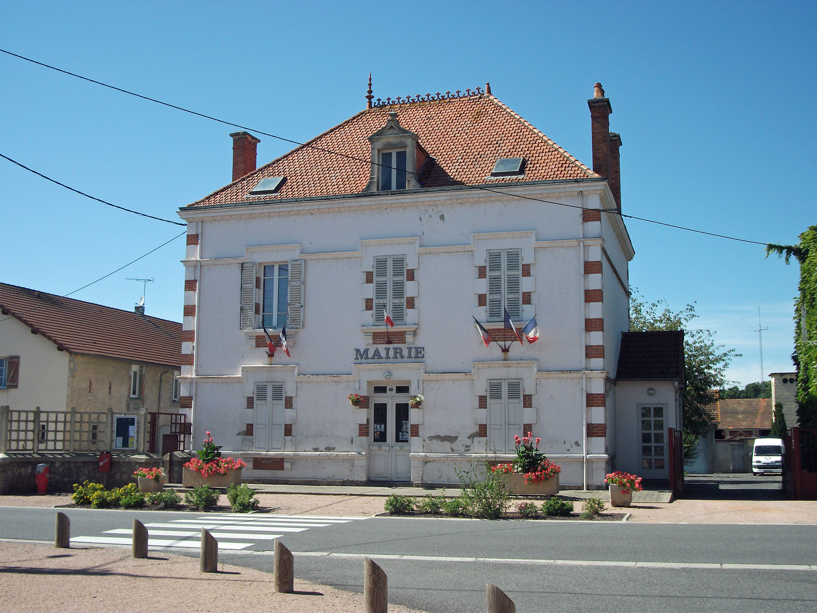 Town hall of Magnet, Allier [8874]